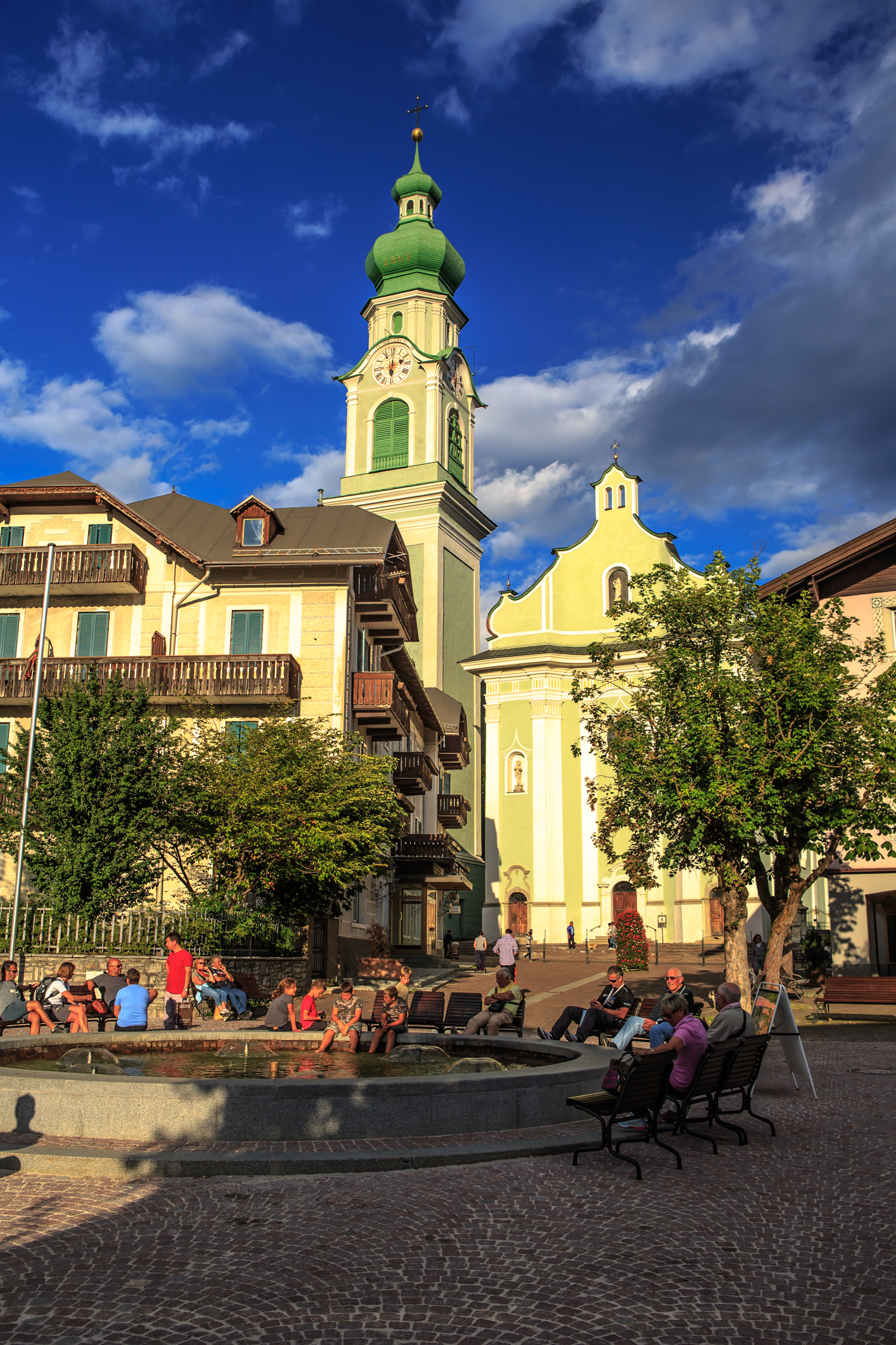 Dolomites...Dobbiaco area...